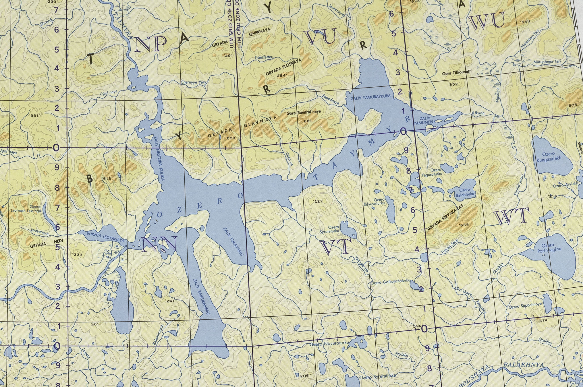 map of Lake Taymyr, Krasnoyarsk Region, Russian Arctic